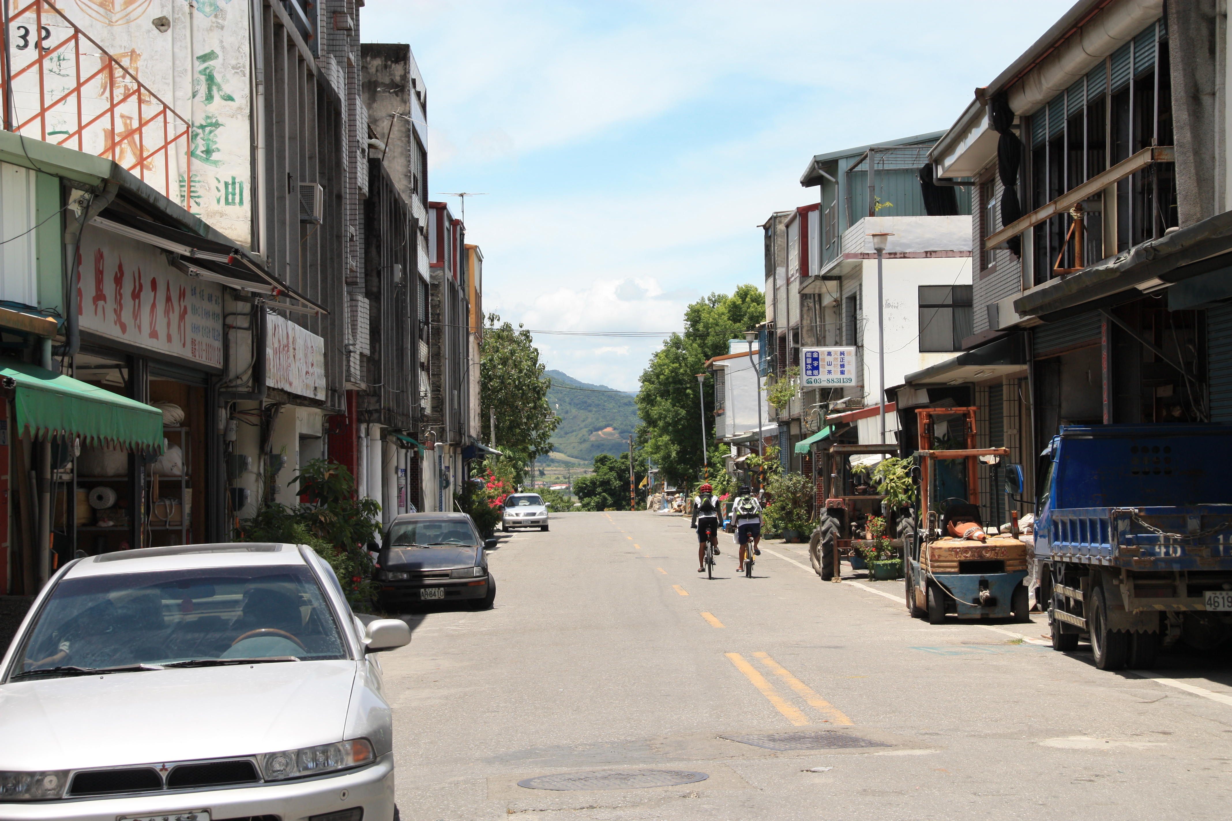 Hualien CountyFùLǐ TownshipFùLǐChēzhàn St.